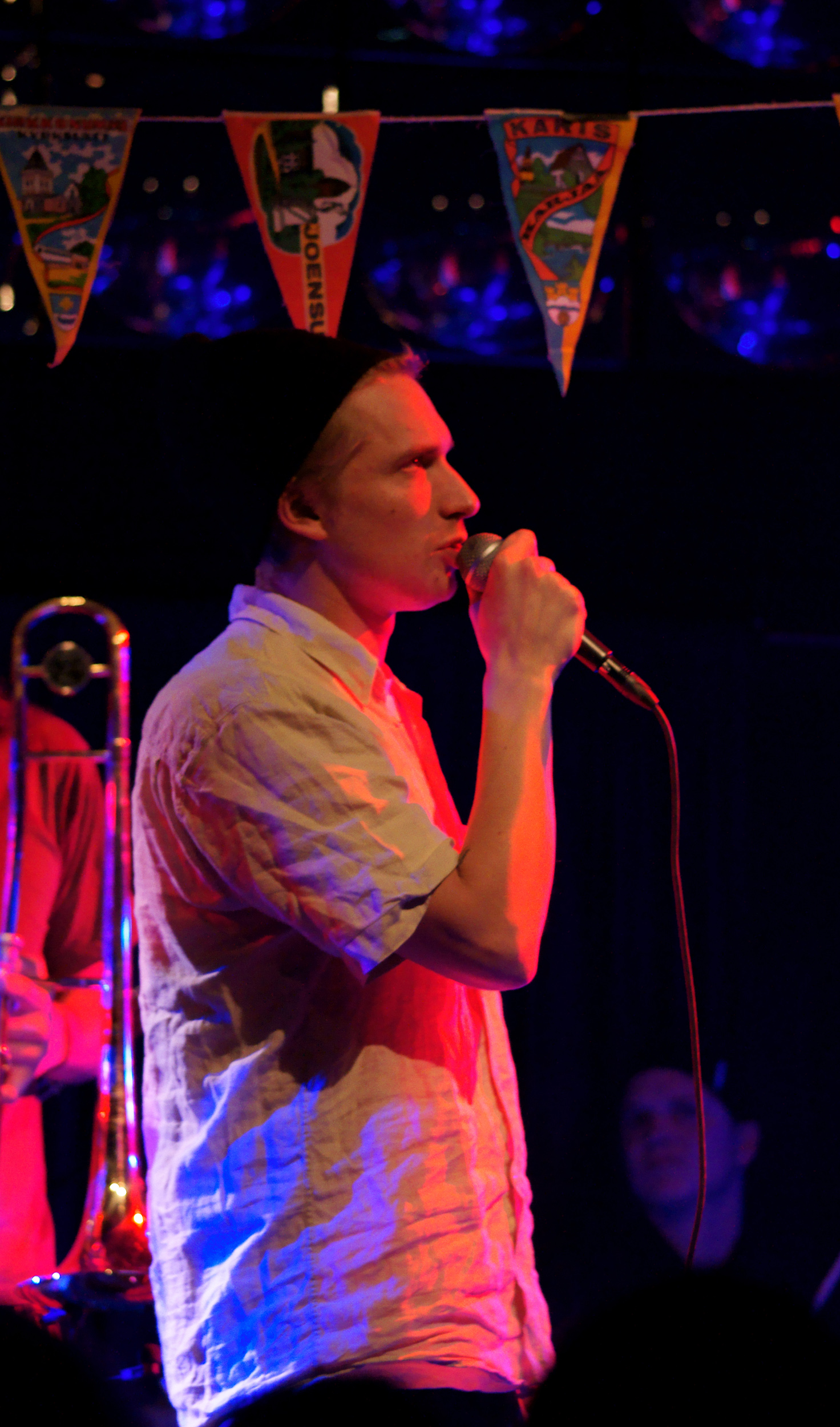 Asa from Asa & Jätkäjätkät performing at Bar Kino, Pori, Finland.